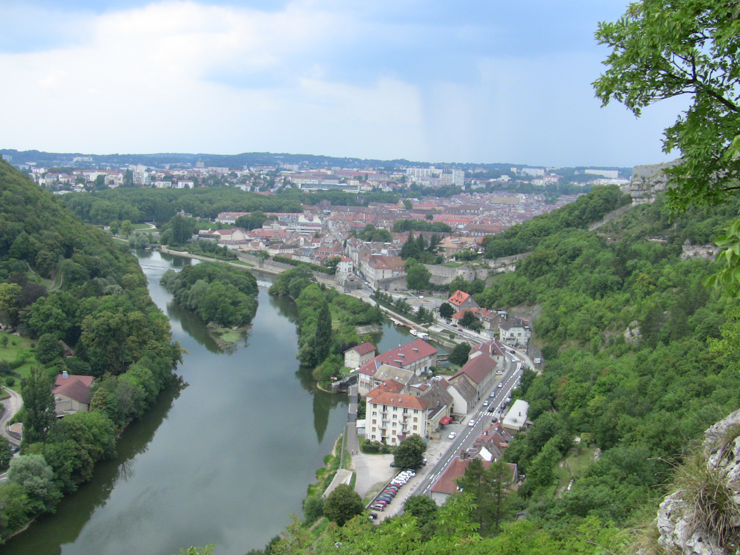 View of Tarragnoz, area of Besançon, from the hill of Saint-Etienne near the Citadel of Besançon